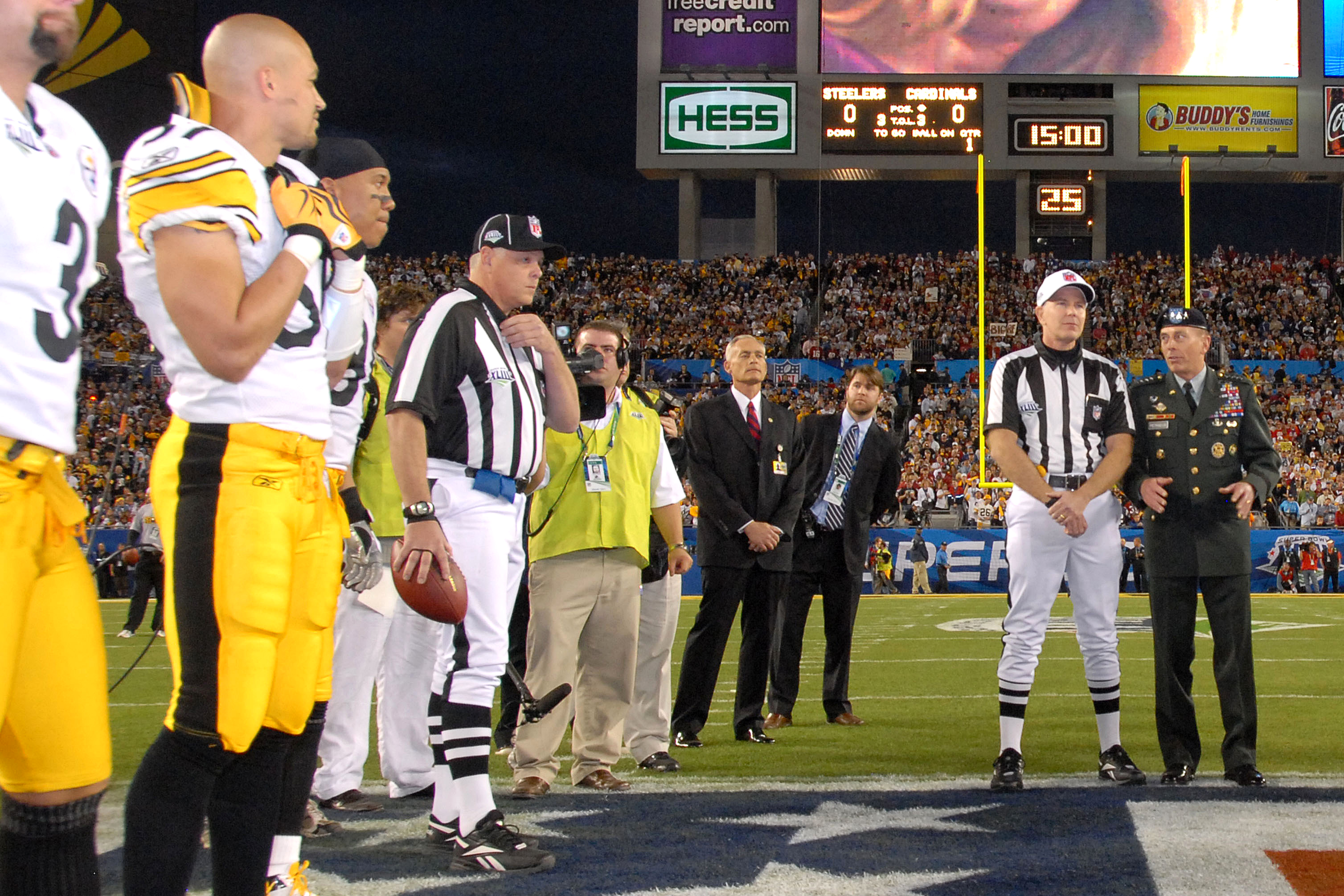 U.S. Army Gen. David H. Petraeus, commander, U.S. Central Command, talks with head Super Bowl XLIII referee Terry McAulay prior to the coin toss, Feb. 1, 2009, at Raymond James Stadium in Tampa, Florida